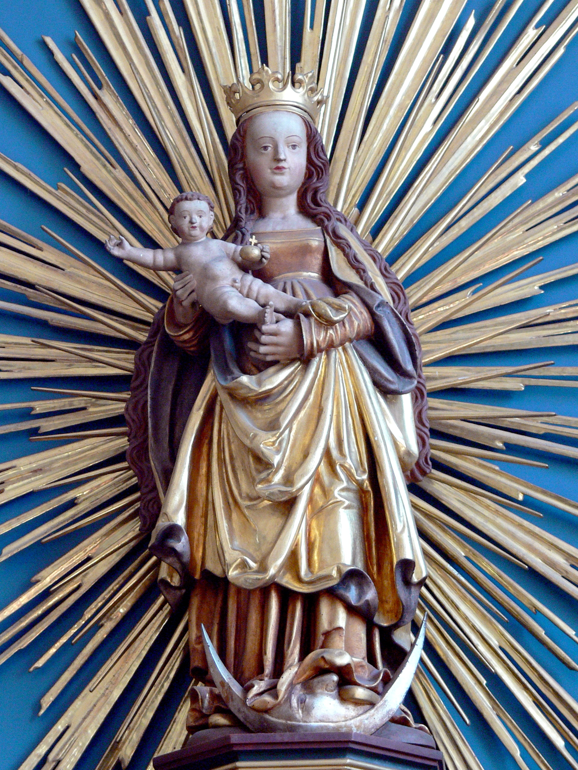 Grieskirchen - Saint Martin parish church: Gothic Virgin Mary on the crescent.